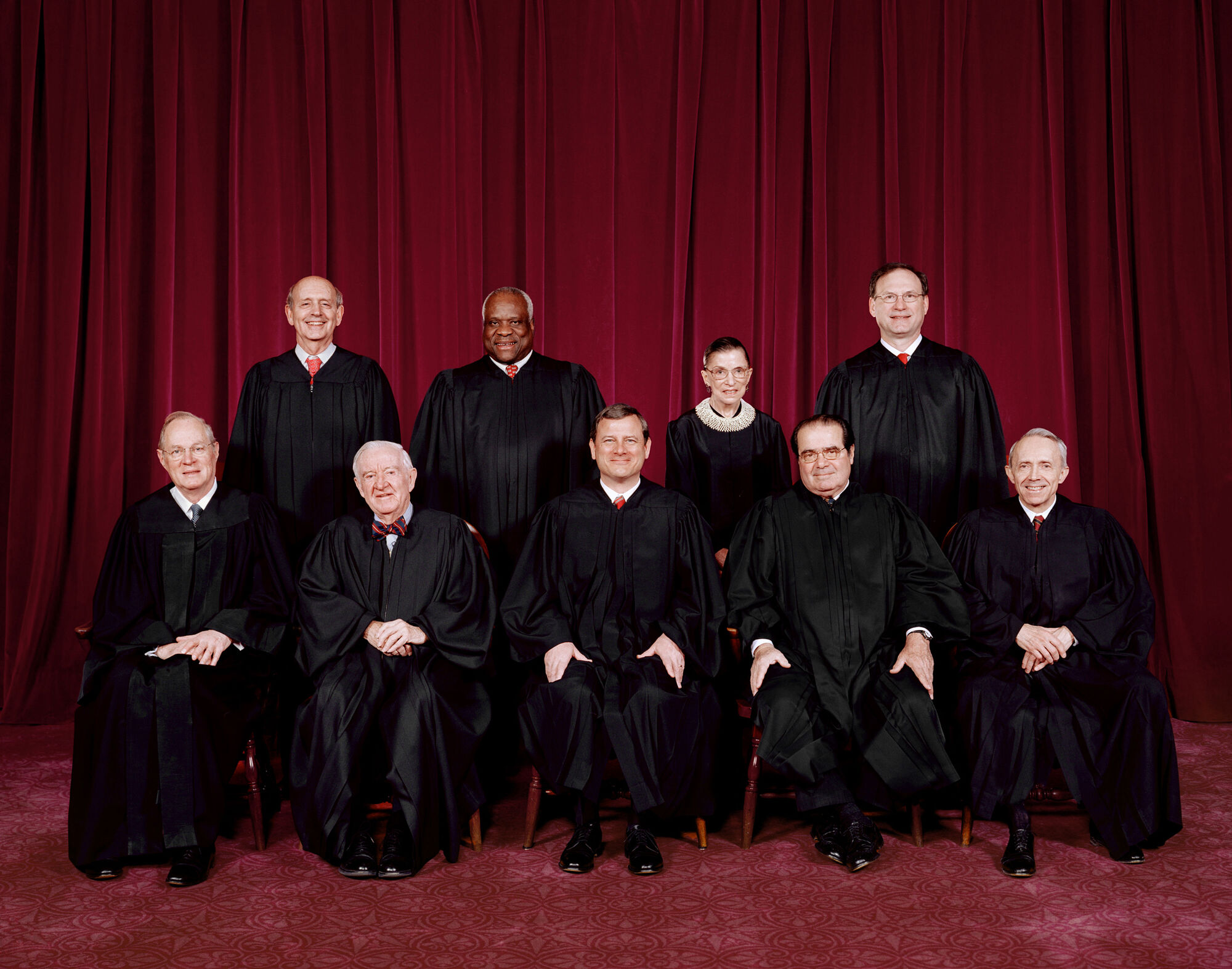 The current United States Supreme Court, the highest court in the United States, in 2006. Top row (left to right): Associate Justice Stephen G. Breyer, Associate Justice Clarence Thomas, Associate Justice Ruth Bader Ginsburg, and Associate Justice Samuel A. Alito. Bottom row (left to right): Associate Justice Anthony M. Kennedy, Associate Justice John Paul Stevens, Chief Justice John G. Roberts, Associate Justice Antonin G. Scalia, and Associate Justice David H. Souter.